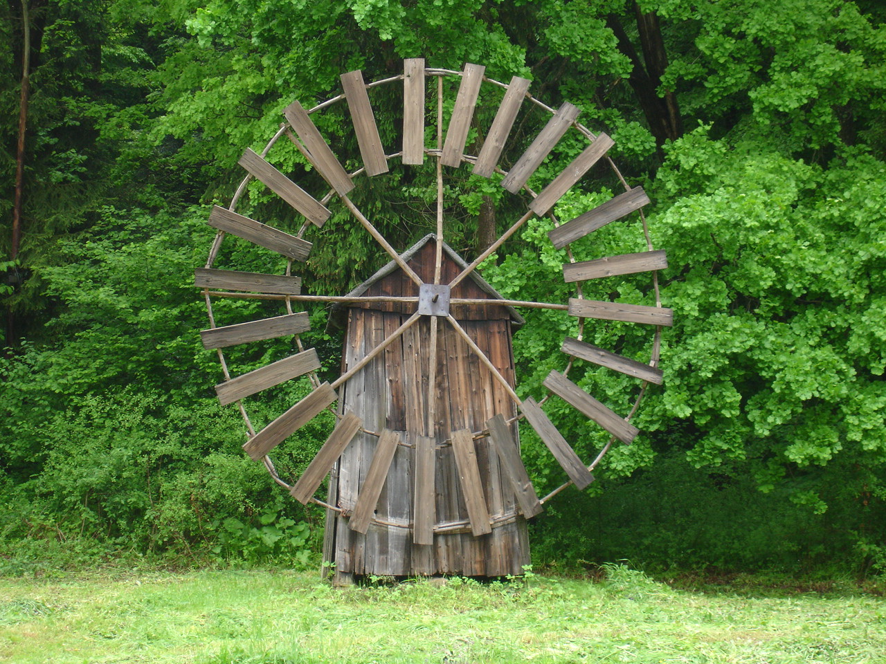 a windmill from Domaradz, beginning of the 20th century, object exists in a Sanok_Skansen